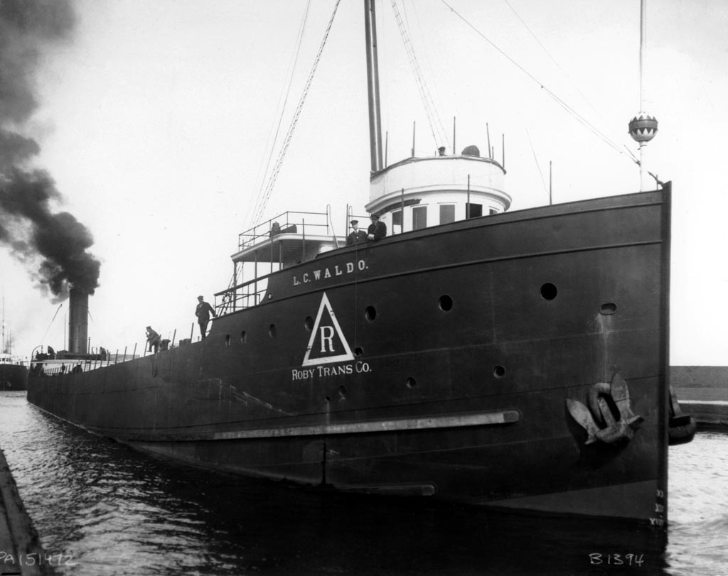 The L.C. Waldo possibly departing the Soo Locks